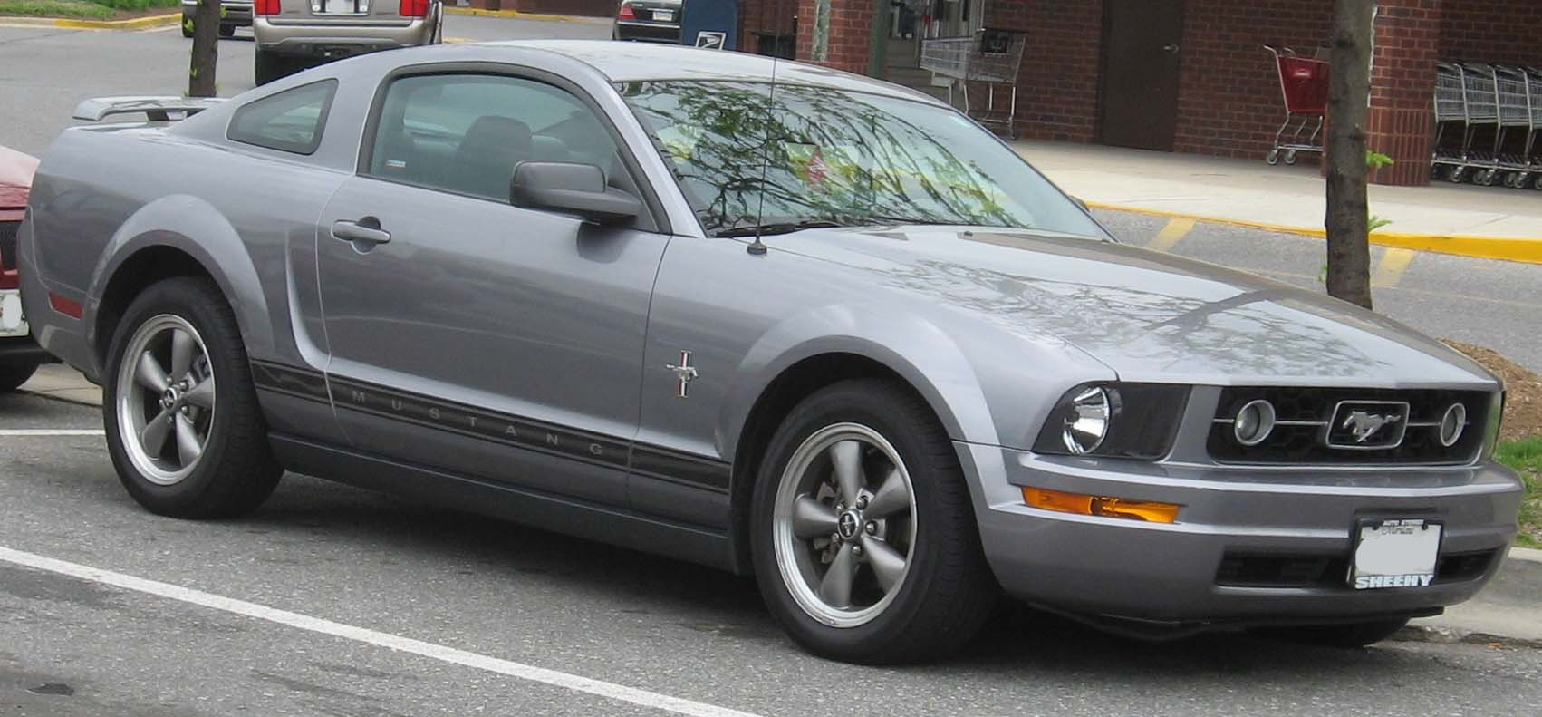 2006-2007 Ford Mustang with Pony Package photographed in USA.